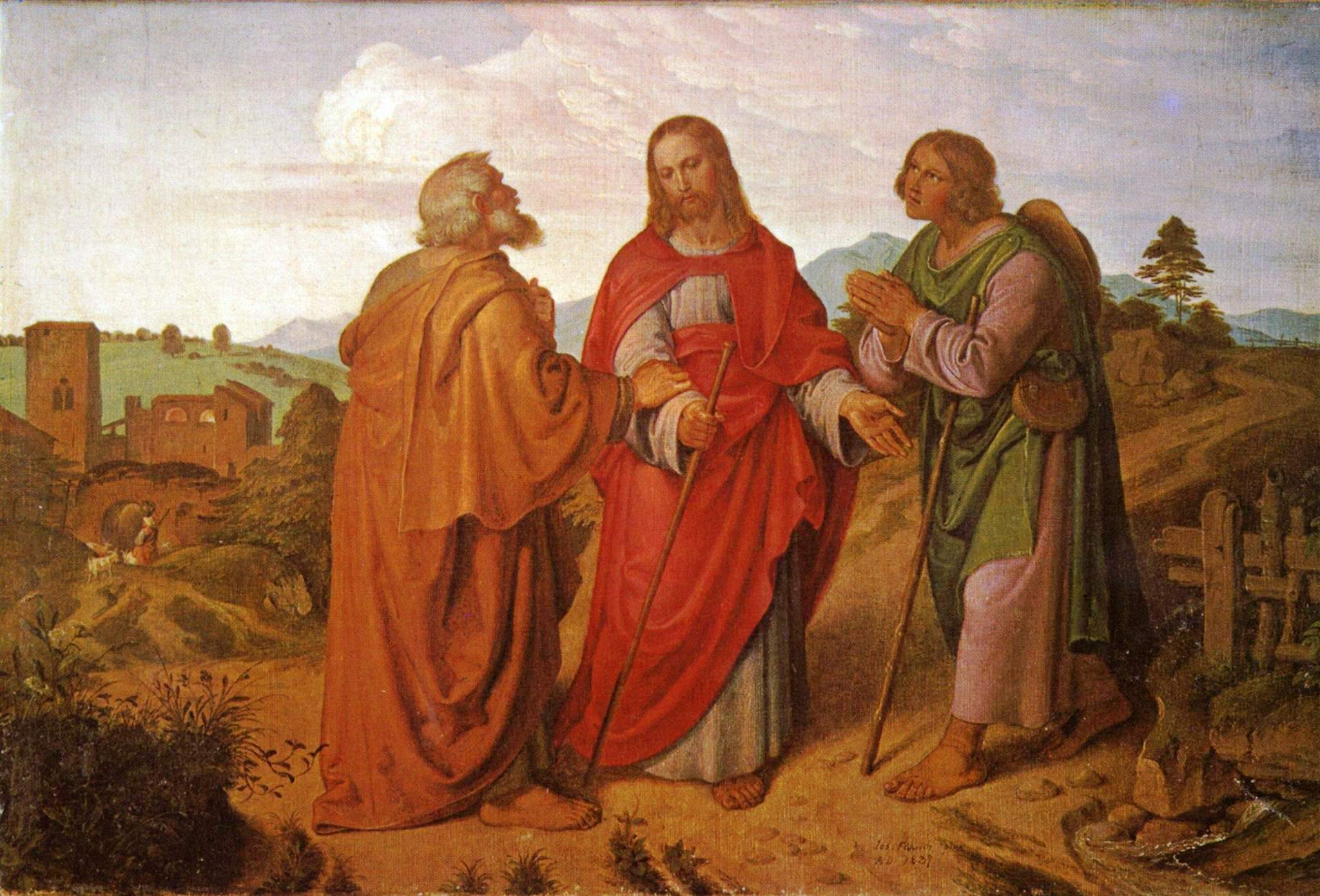 A depiction of Saint Cleopas as one of the disciples who met Jesus during the Road to Emmaus appearance.